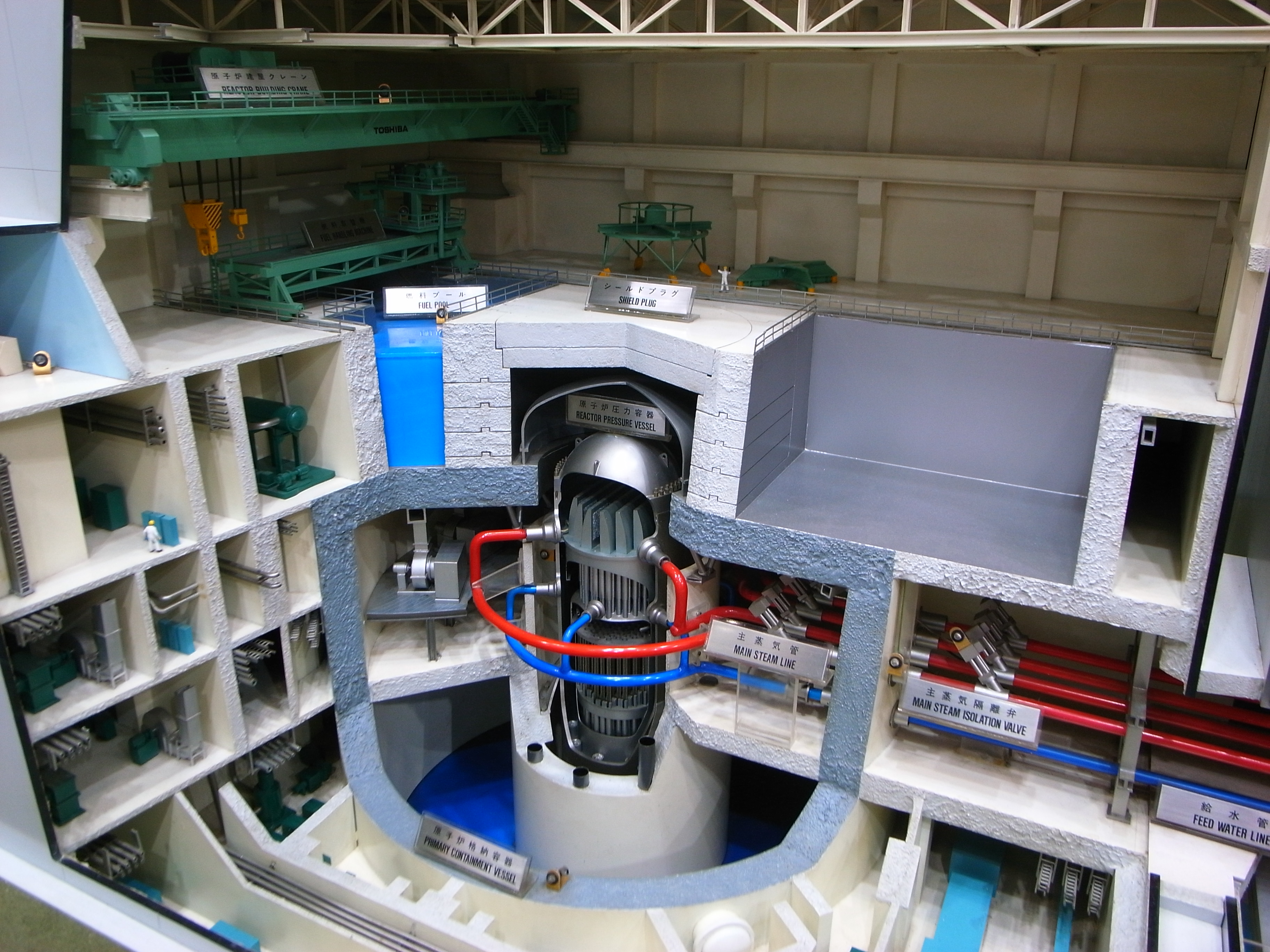 Model of the nuclear power plant from Toshiba with ABWR